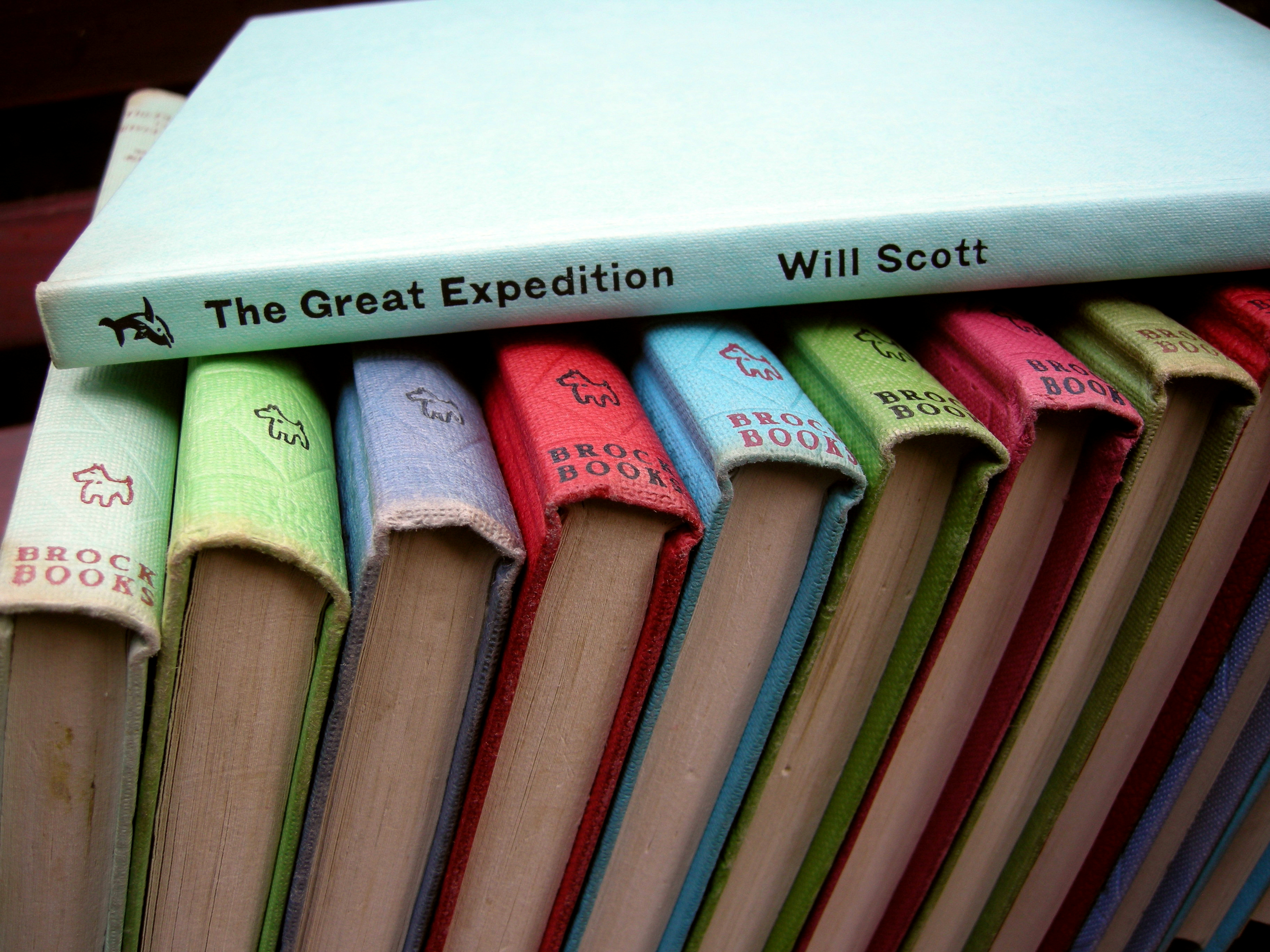 Books from The Cherrys series by Will Scott, plus one other. Published in the 1950s and 1960s.